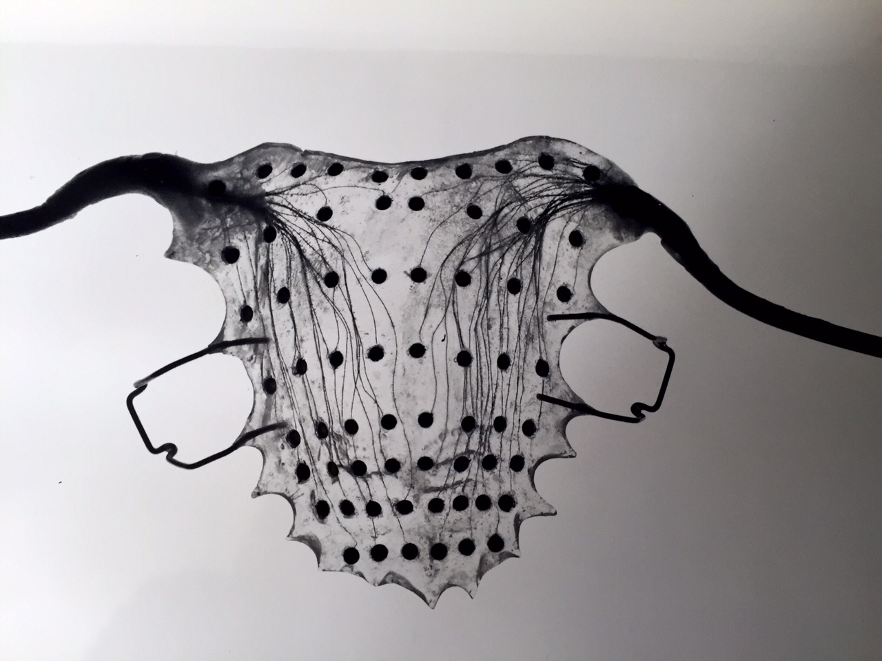 Artificial palate for electropalatography, velar region at top, dental region at bottom